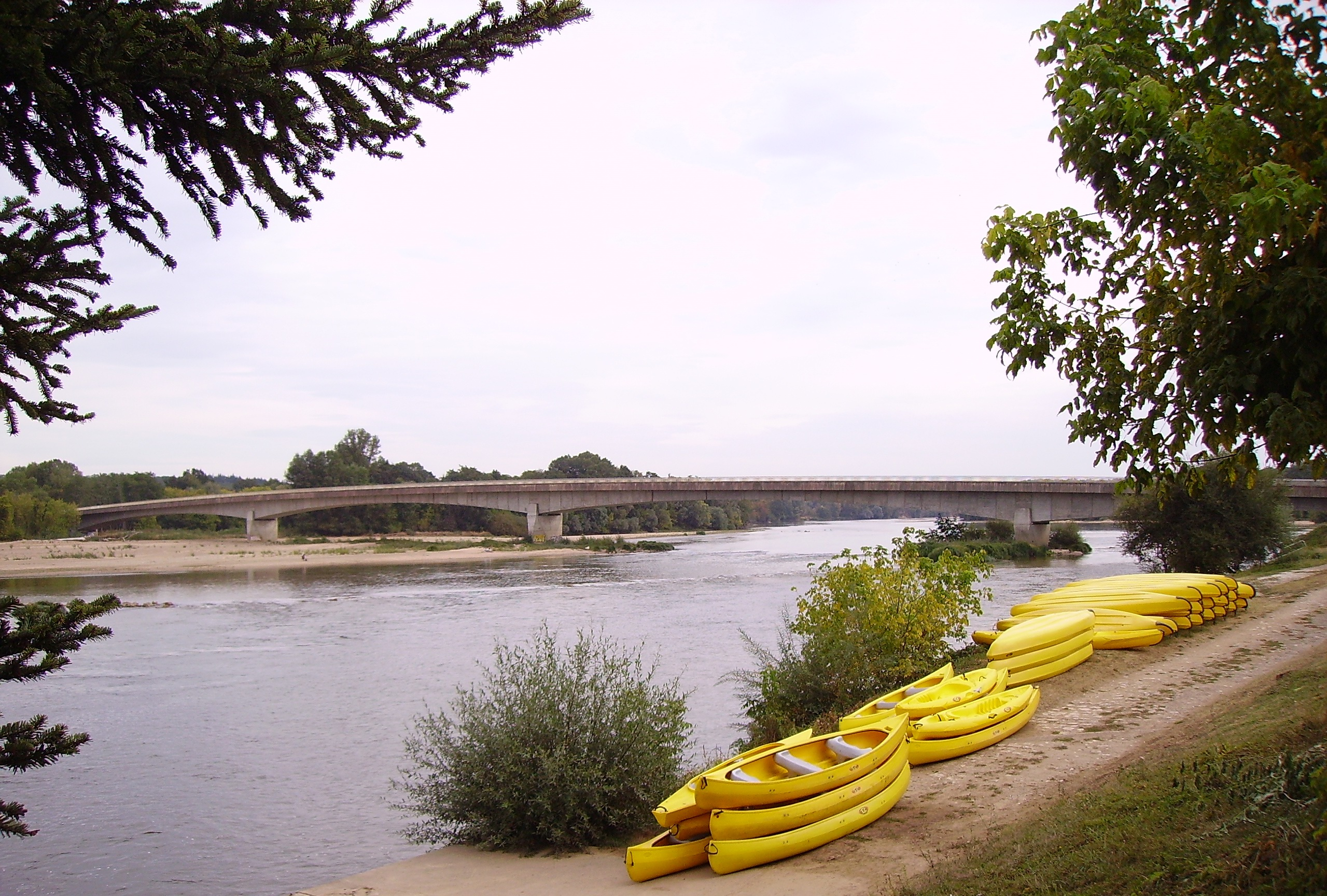 Bridge over the Loire river and canoes in Saint-Thibault-sur-Loire near Saint-Satur, Cher, Centre region, France.